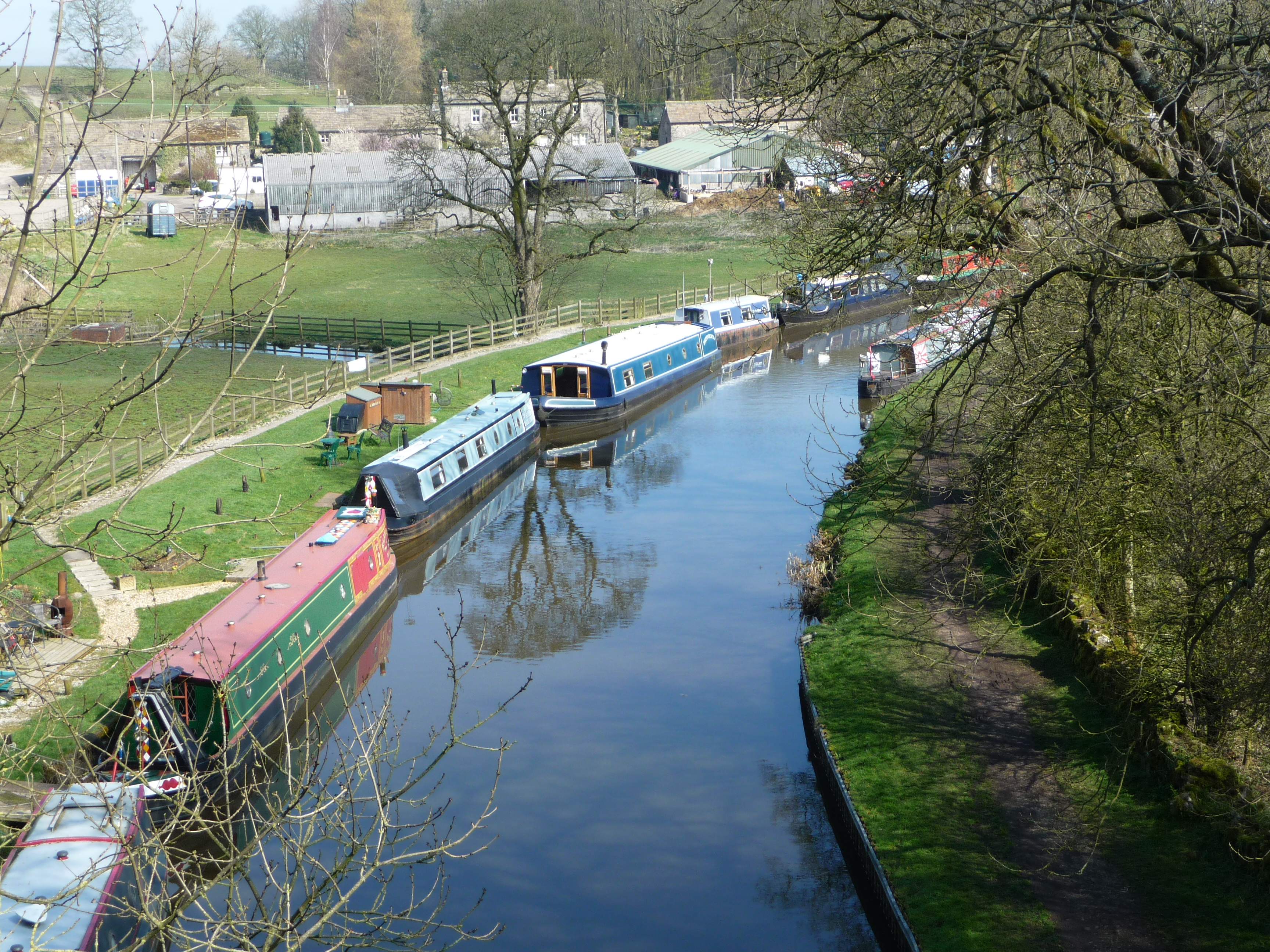 Leeds and Liverpool Canal in Lancashire， UK